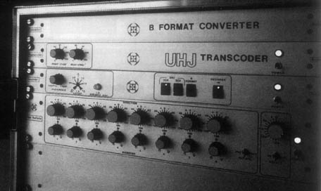 This image depicts Ambisonic mixing equipment and is being provided to illustrate a subsection of the page on Ambisonics. I took this picture of the equipment in my studio and release it to the public domain. Richard E 17:00, 14 January 2007 (UTC)